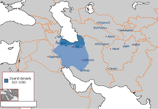 Map showing extent of the Ziyardi Dynasty 928 - 1043 (AD)